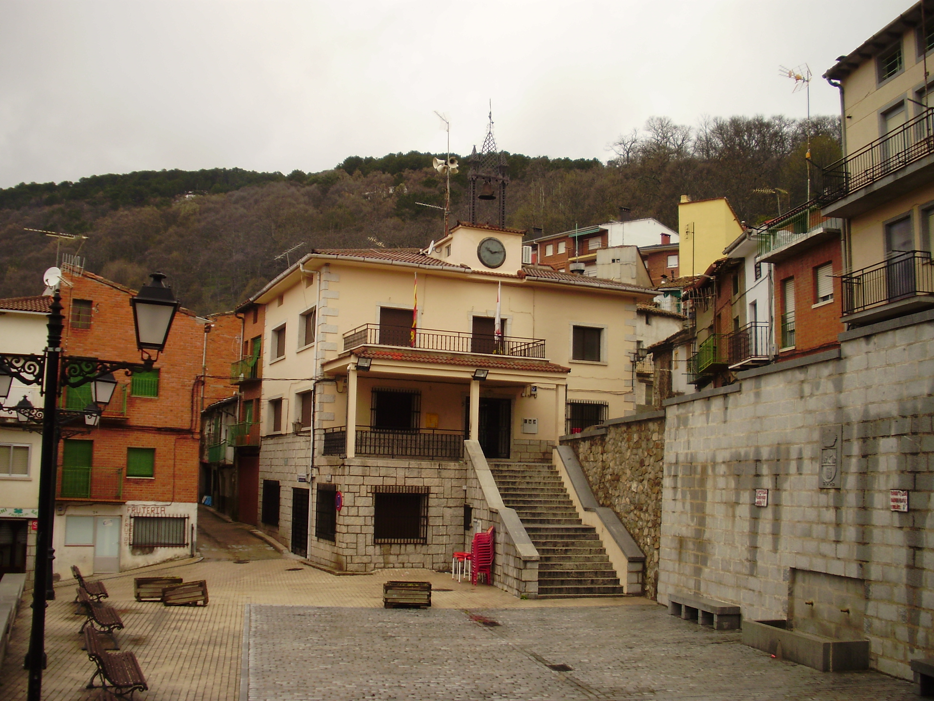 Casillas town hall, Castile and León